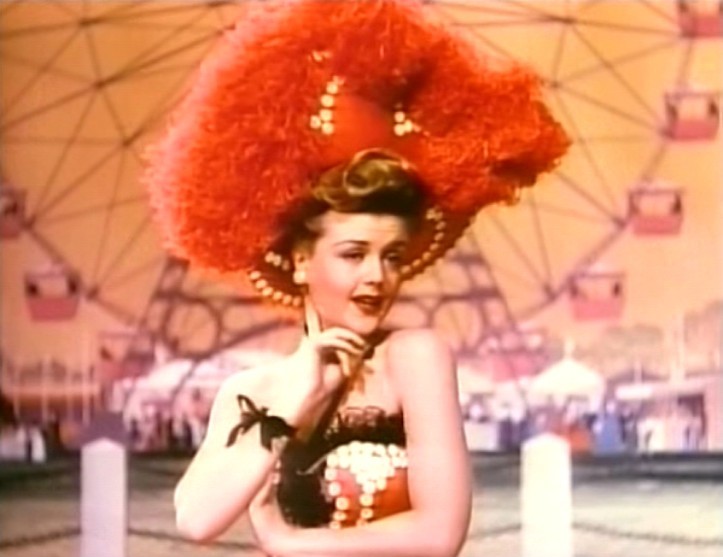 Cropped screenshot of Angela Lansbury from the film Till the Clouds Roll By.